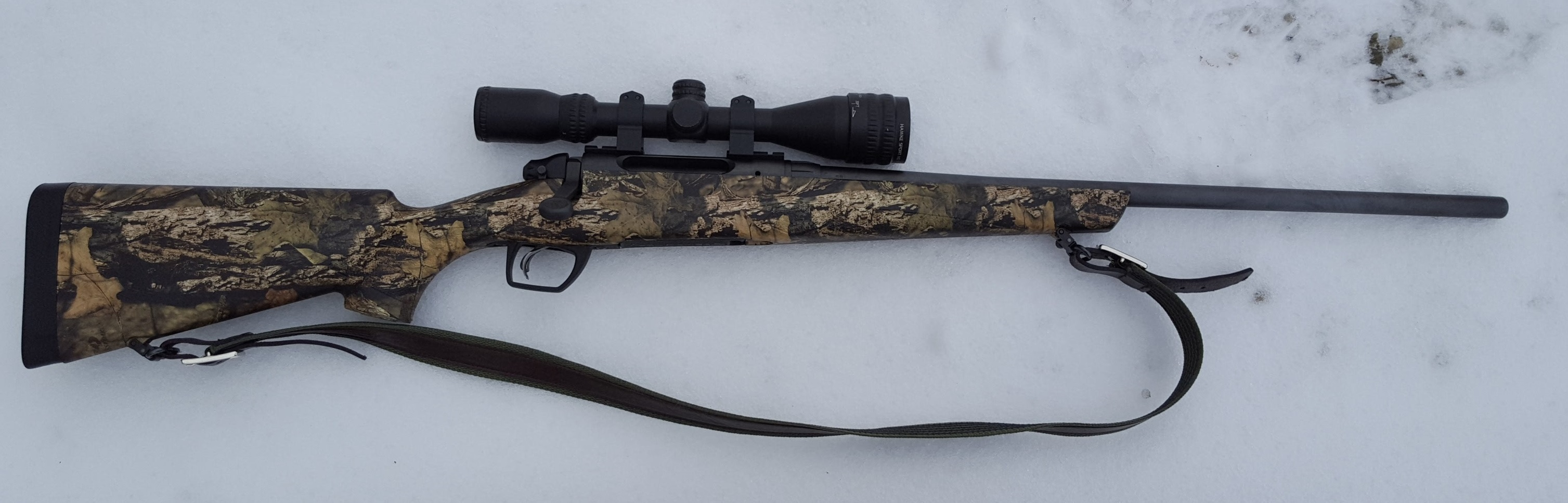 Remington 783 .308W with scope